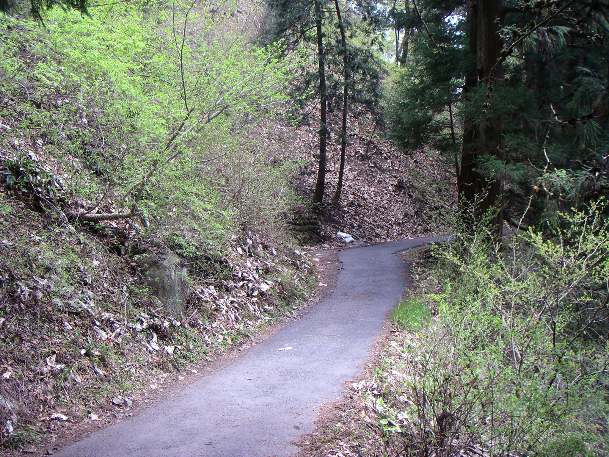 Tokyo prefectural road 201